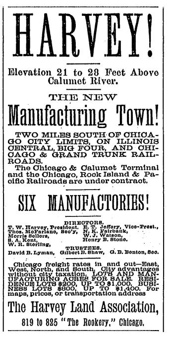 Image of advertisement which appeared in the Chicago Daily Tribune promoting Harvey, Illinois